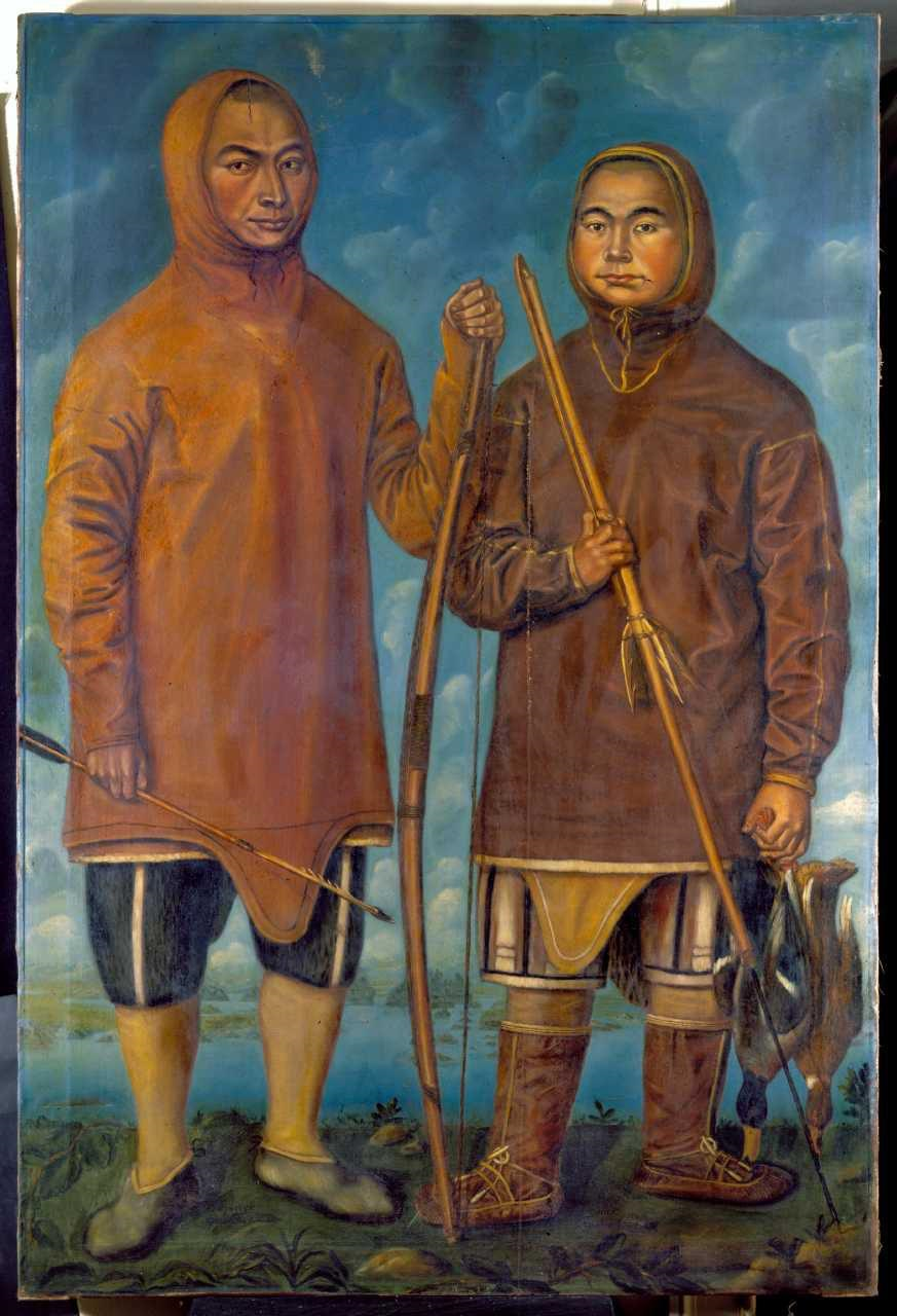 Portrait of Pooq og Qiperoq, 1724